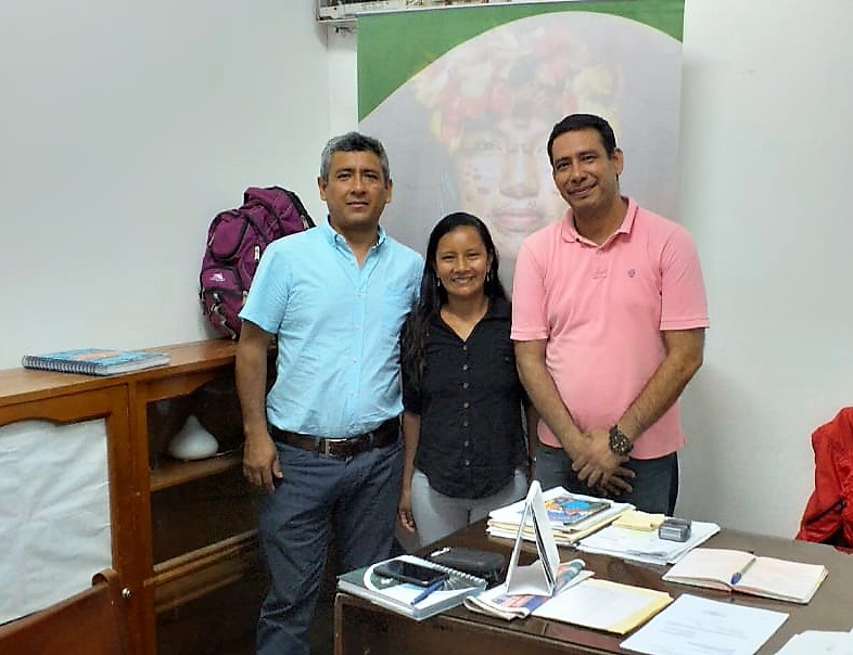 Liz Chicaje works for her su community.